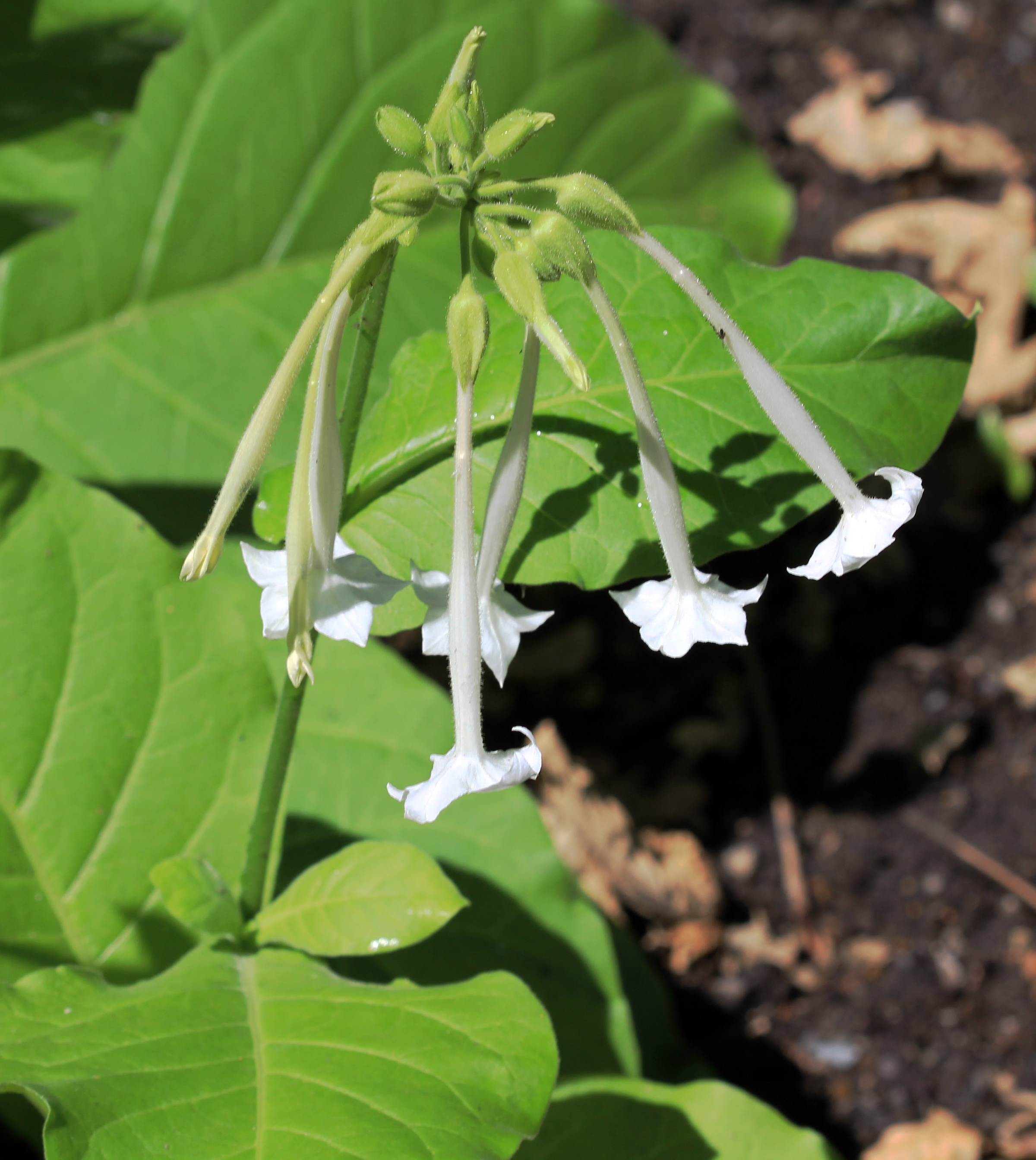 Flowers of plant Nicotiana sylvestris from the Botanical Gardens of Charles University, Prague, Czech Republic